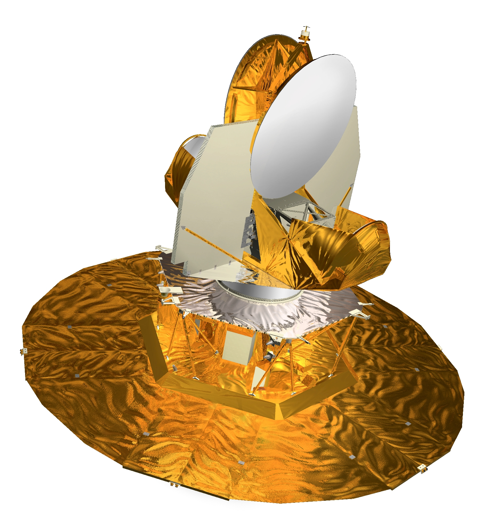 NASA-created illustration of the Wilkinson Microwave Anisotropy Probe spacecraft